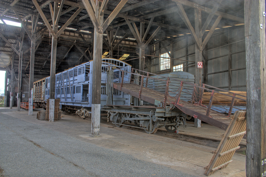 Here you can see the sheep/cattle car that the High School students are working on. Note the framework on the top of the carriage ready for the timber to be curved and installed.